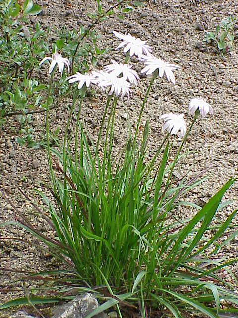 Species: Scorzonera purpurea subsp. rosea Family: Asteraceae Image No. 1